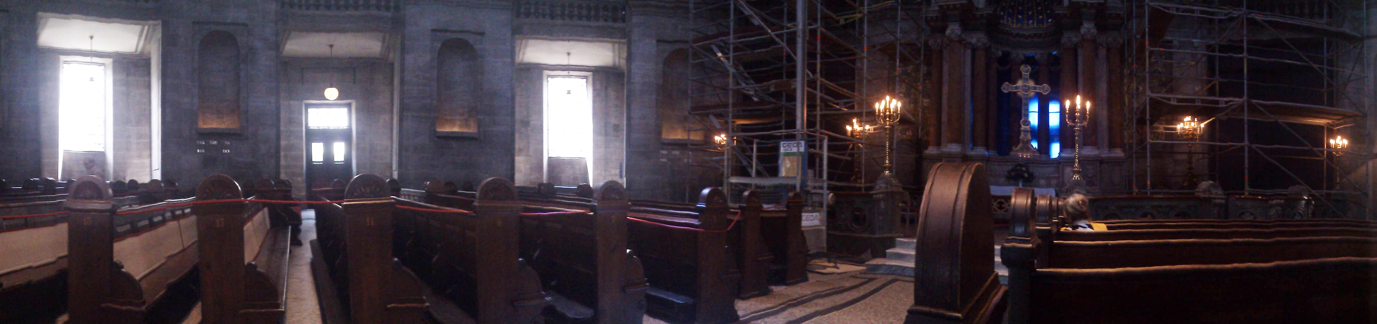 A panorama photo of Marmorkirken i København.